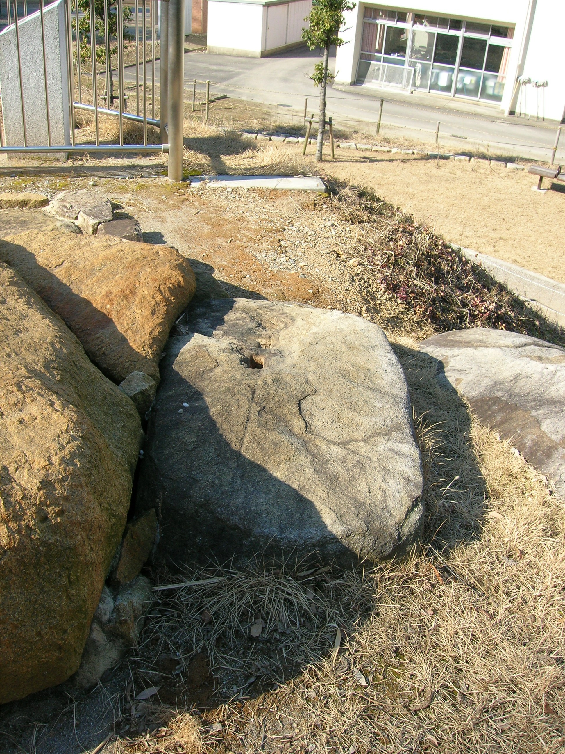 Iwaya kofun. Loc: Komaki city, Aichi Prefecture, Japan. 岩屋古墳、天井石に穿たれた矢穴。 撮影場所 愛知県小牧市大字岩崎